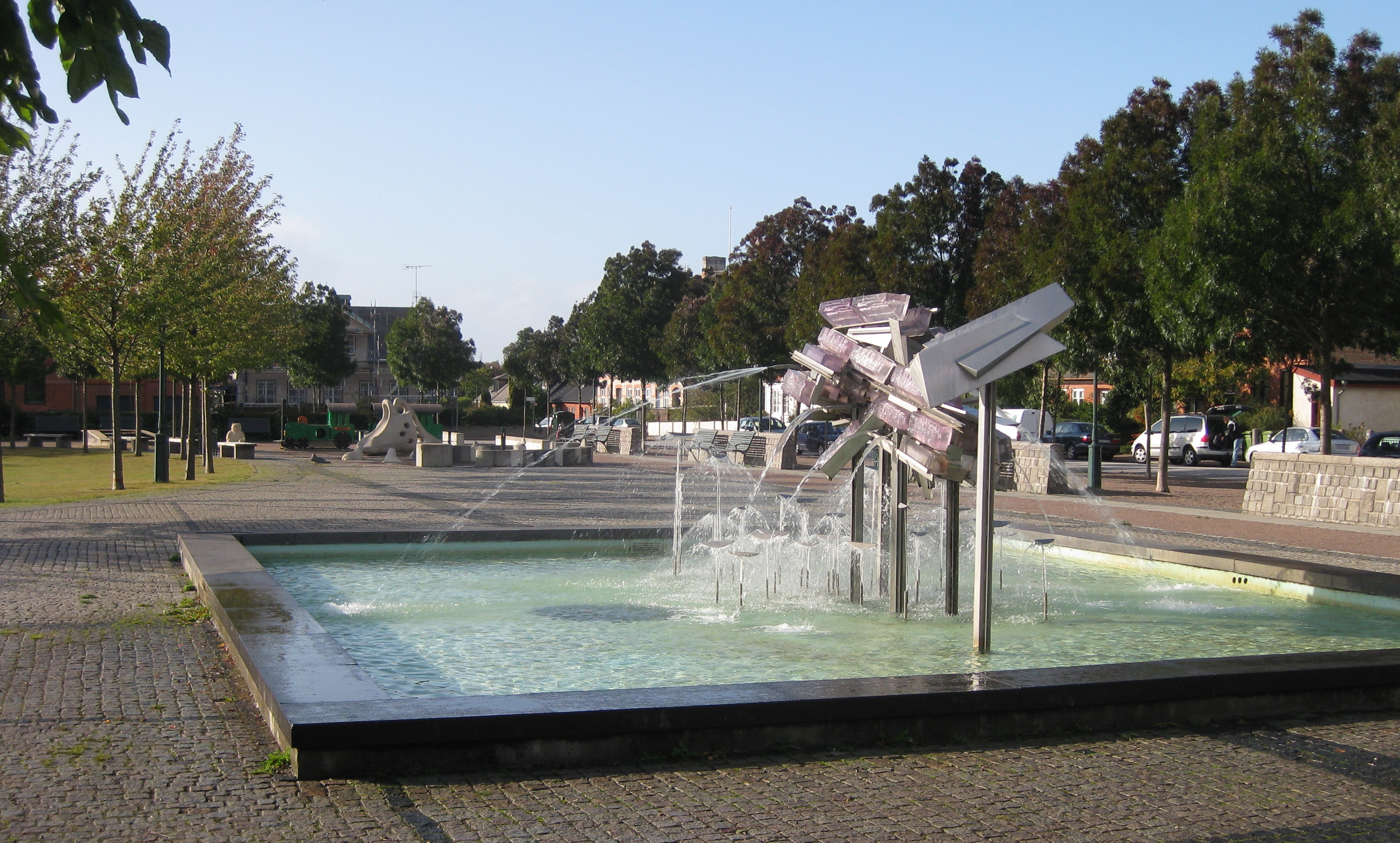 Limhamn square at Malmö, Sweden